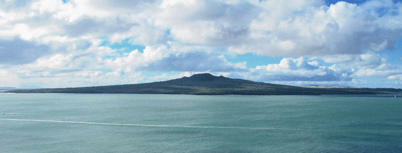 Rangitoto as seen from North Head.